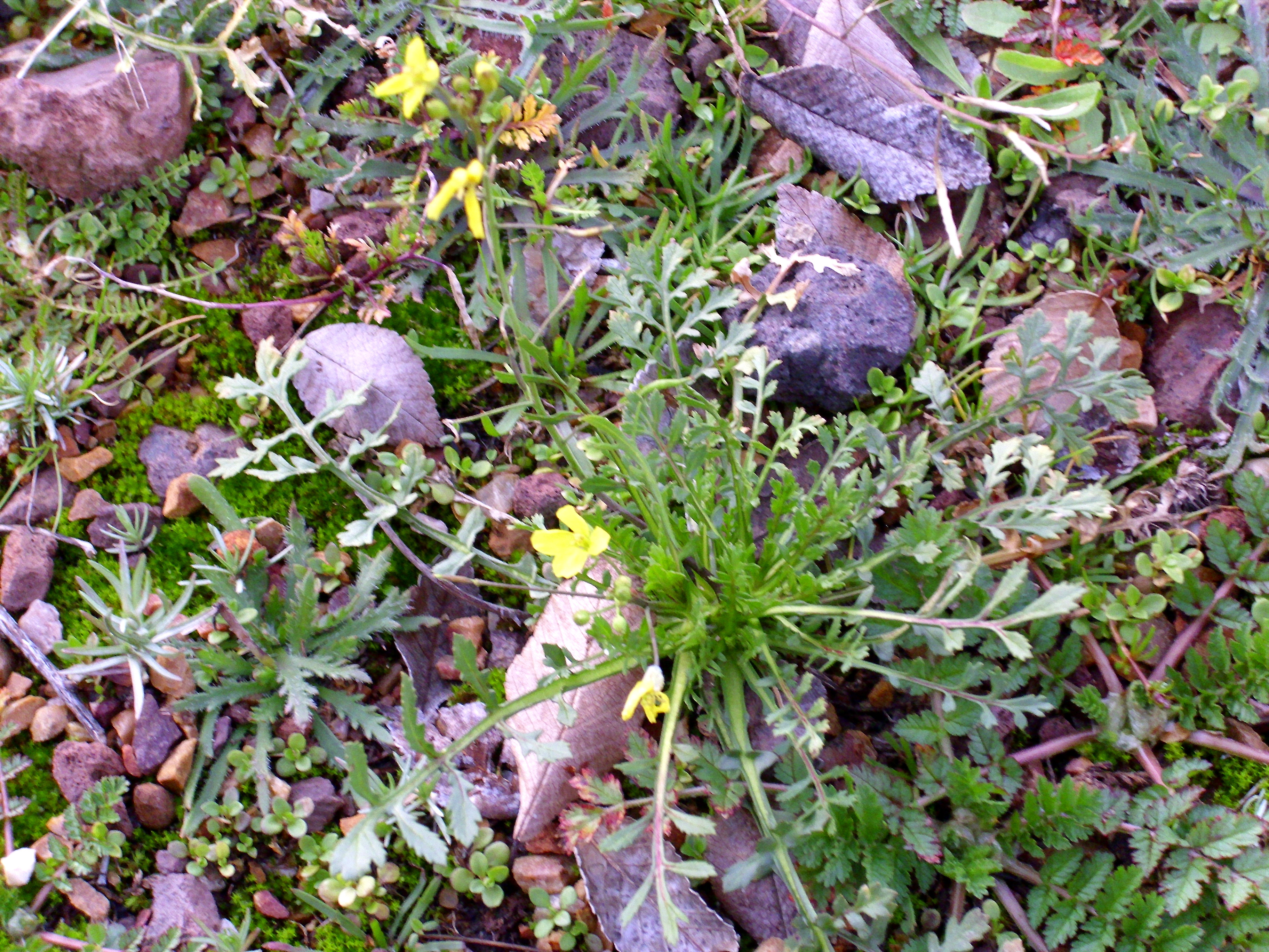 Brassica repanda subsp. blancoana plant, Dehesa Boyal de Puertollano, Spain